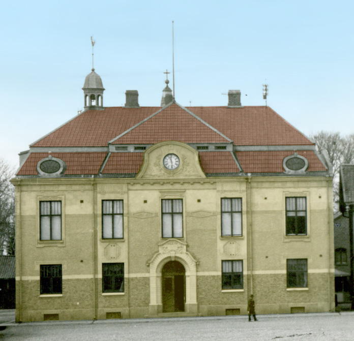 The Falköping town hall (1911-1936), Stora Torget, Falköping, Västergötland, Sweden. The town hall was built in 1911. A third floor was added in 1936. The town hall was pulled down i April 1973. This photo was thus taken somewhere between 1911 and 1936 by an unknown photographer. The photo was scanned and coloured in 2010 by Achird.